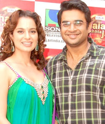 Kangna and R Madhavan promote 'Tanu Weds Manu' on Jhalak Dikhhla Jaa sets